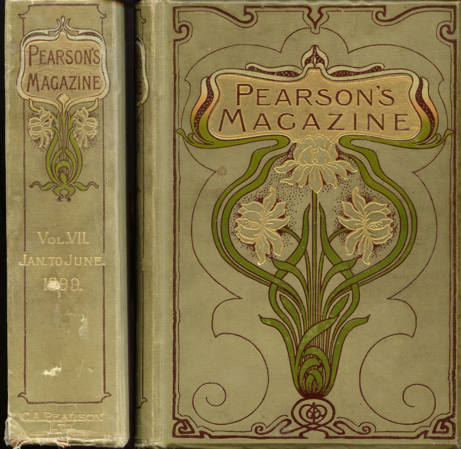 Cover used for collected volume of Pearson's Magazine January-June 1899. The same cover design was used for volumes from 1897 until at least 1908.